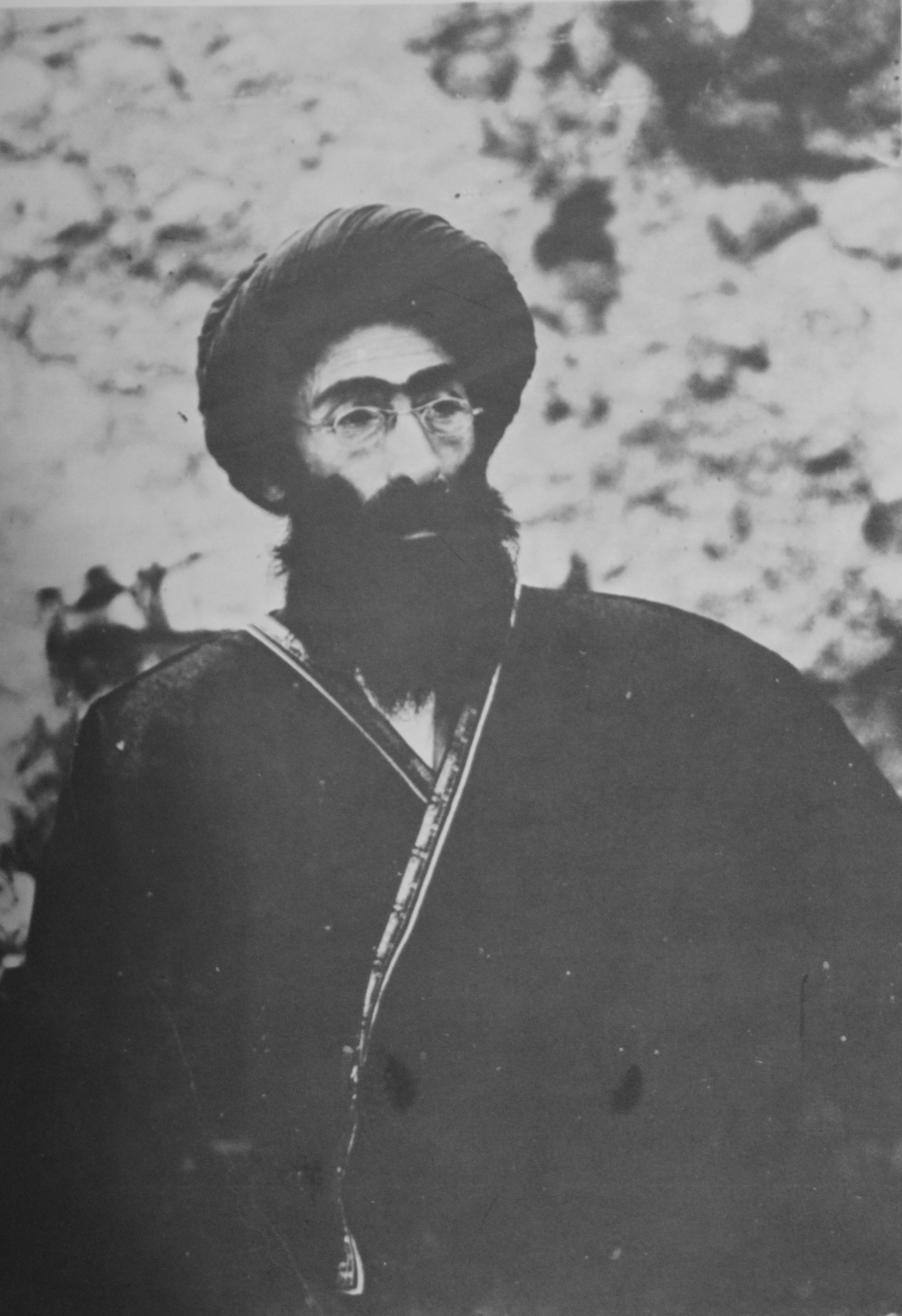 Hajj Adl-ol-Molk, ancestor of Adle family.